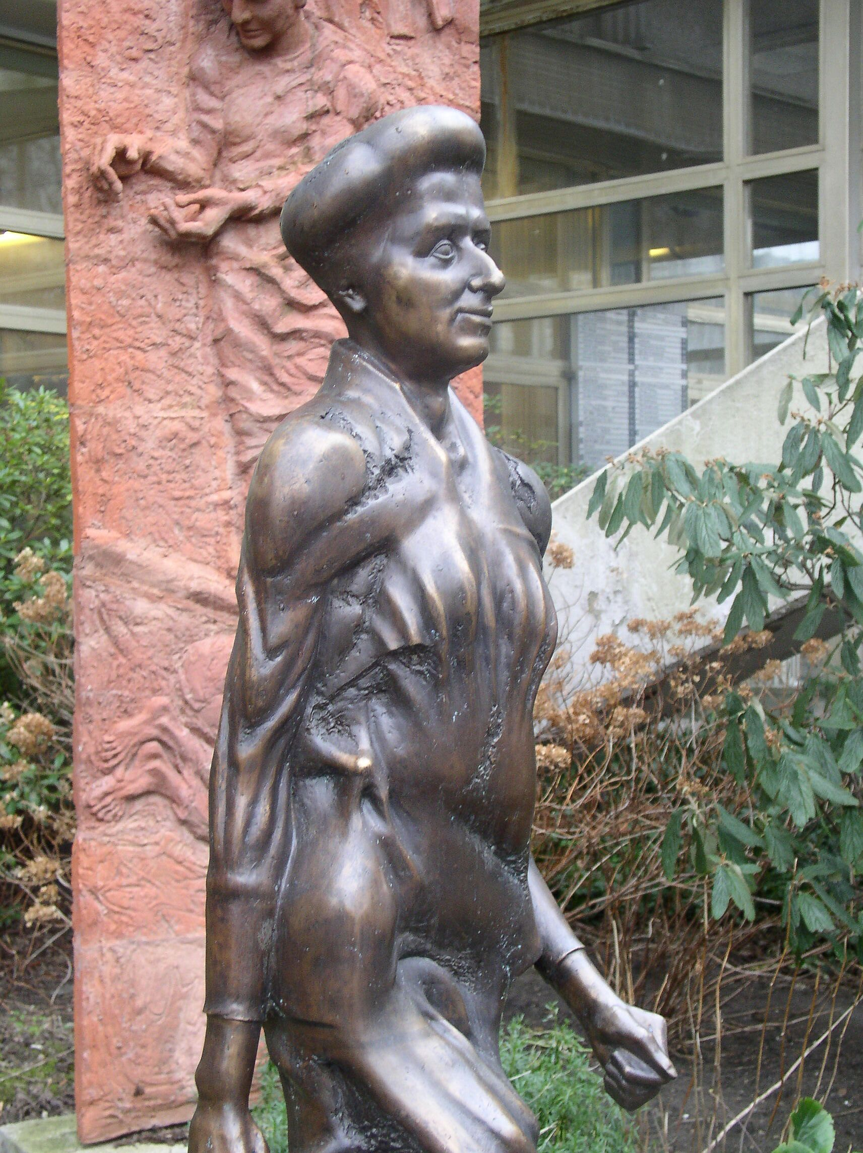 Sculpture of Rosa Luxemburg, made by Rolf Biebl, standing in front of the Neues Deutschland building, Franz-Mehring-Platz, Friedrichshain, Berlin.